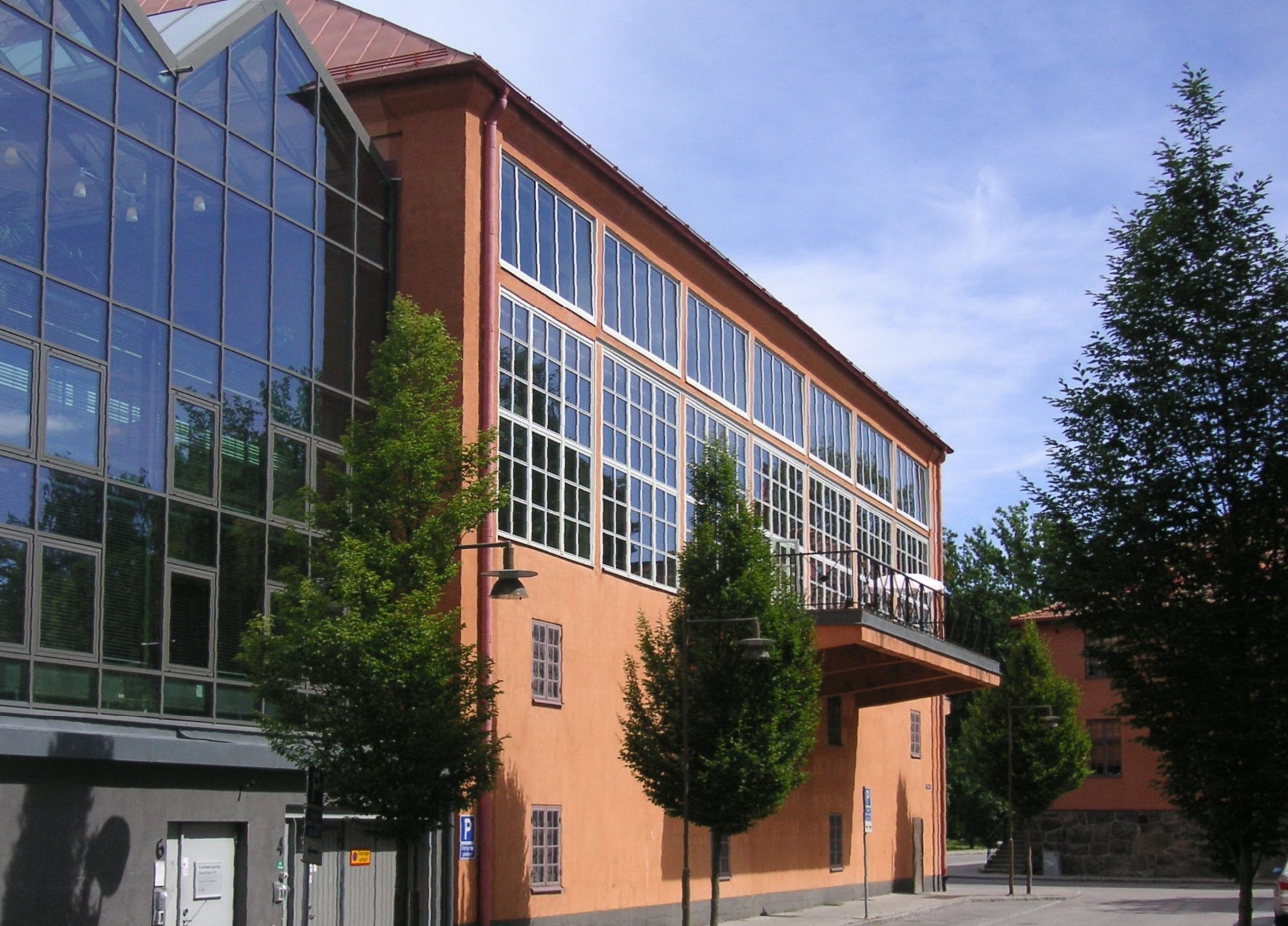 The former Swedish filmstudios "Filmstaden" in Solna